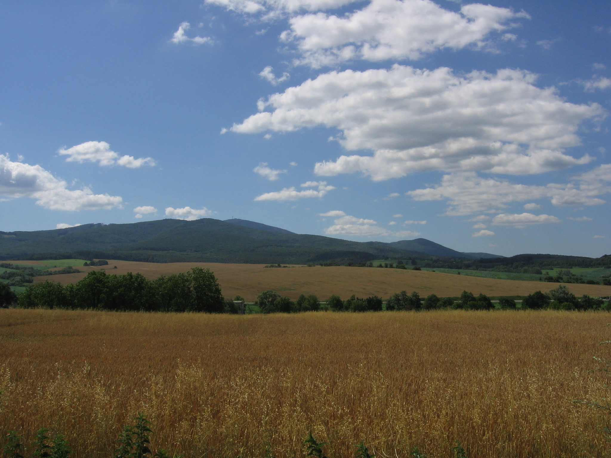 View of Považský Inovec Mts. from the North (between Trenčianska Turná and Mníchova Lehota), hill with transmitter is the Inovec (1041m), highest summit in the mountain range. Western Carpathians, Slovakia.